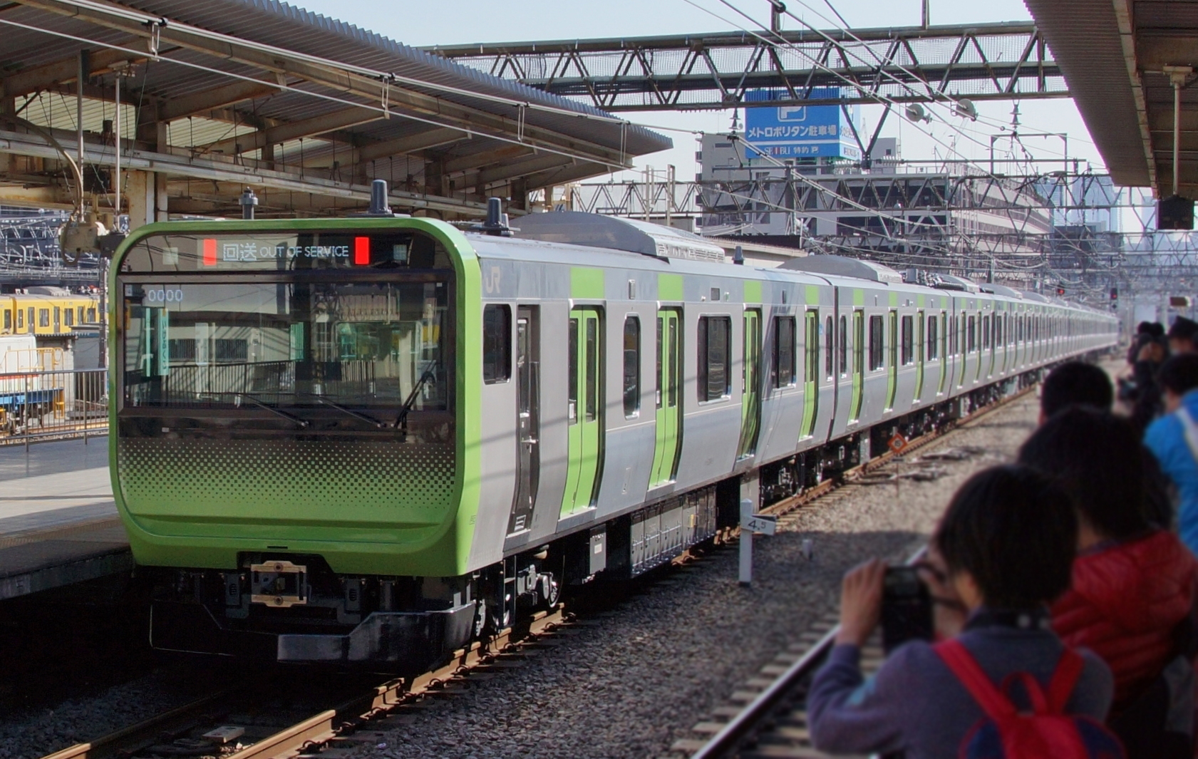 The first JR East E235 series EMU set for the Yamanote Line being hauled through Ikebukuro Station in Tokyo en route from the J-TREC Niitsu Factory to Osaki Depot